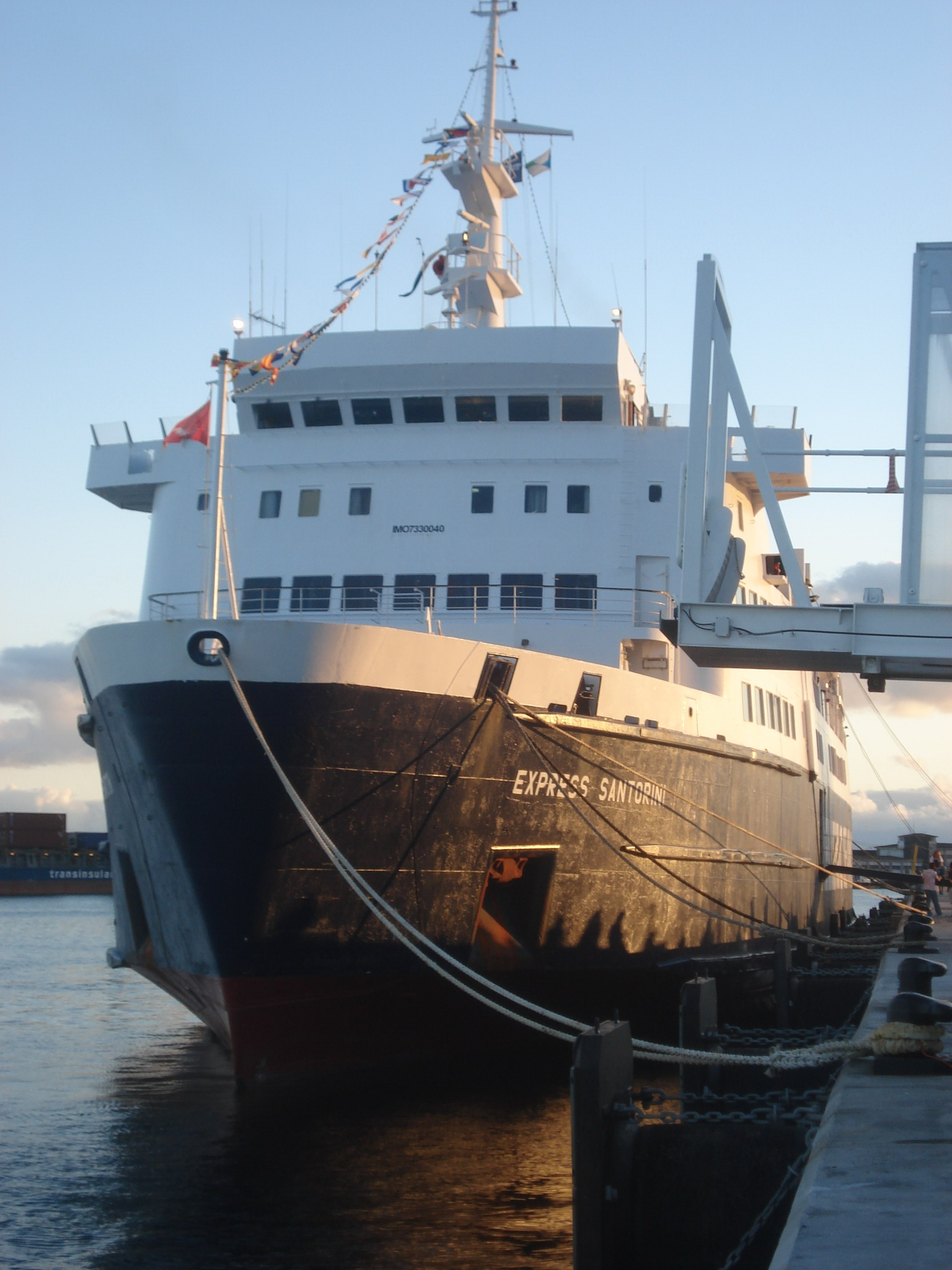 The bow of the Expresso Santorini at dock at the Portas do Mar terminal, municipality of Ponta Delgada (Azores), Portugal